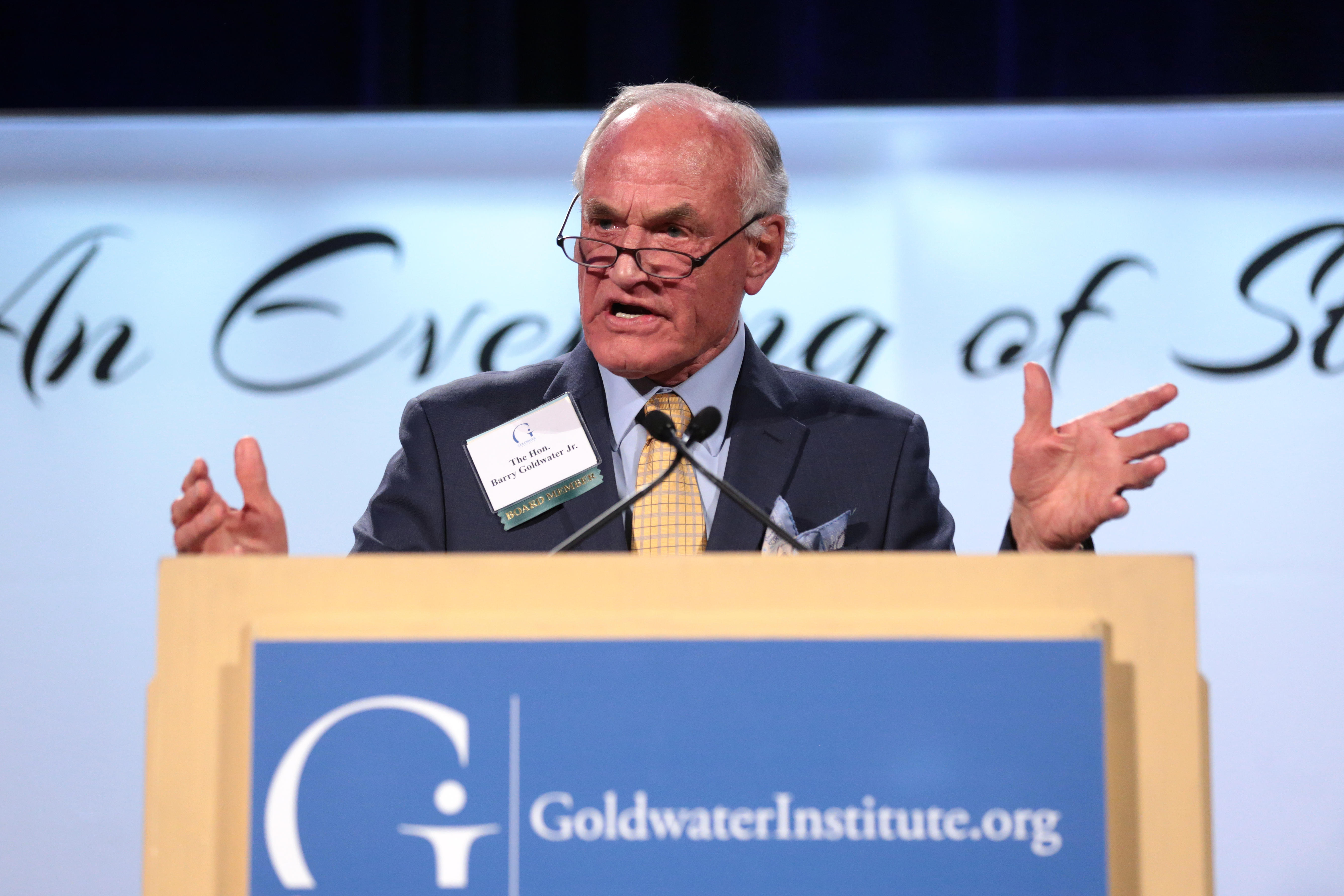 Former U.S. Congressman Barry Goldwater, Jr. speaking at the 2017 Goldwater Dinner hosted by the Goldwater Institute at the Phoenician Resort in Scottsdale, Arizona.